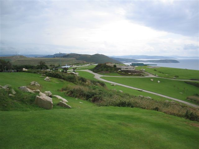 Monte de San Pedro, A Coruña, Galicia, Spain.